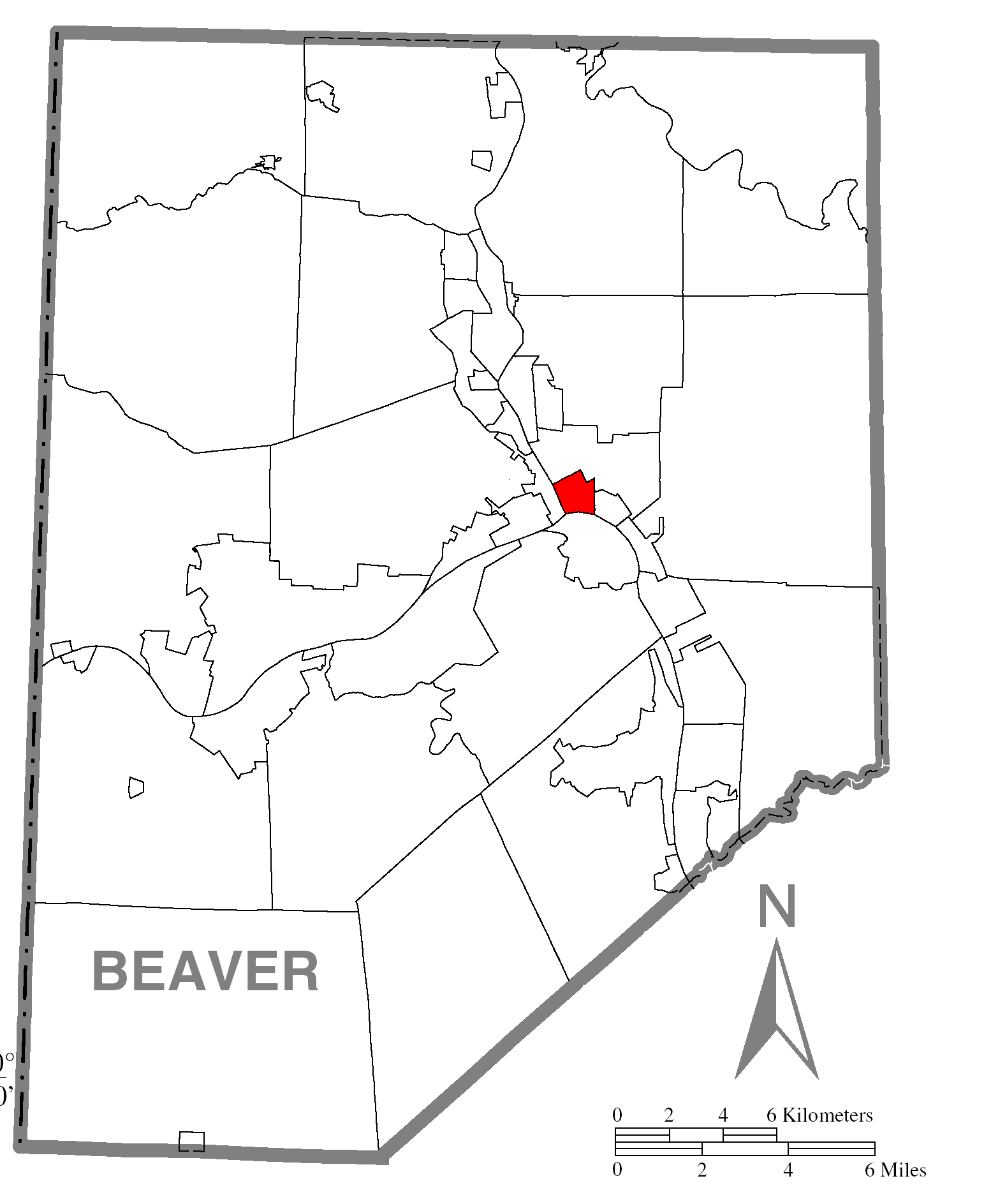 A map of Beaver County showing Rochester, Pennsylvania (alternate) highlighted on the map.